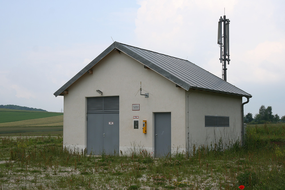 Emergency exit of the Offenbau Tunnel, Nuremberg–Ingolstadt high-speed railway line